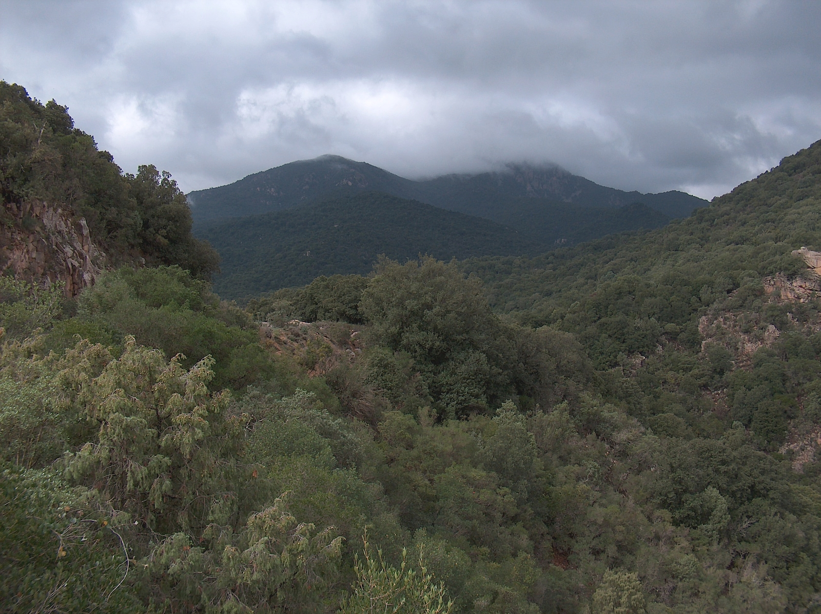 Mount Lattias, at the southern border of WWF Oasis of Monte Arcosu. View from the gorge of Gutturu Mannu